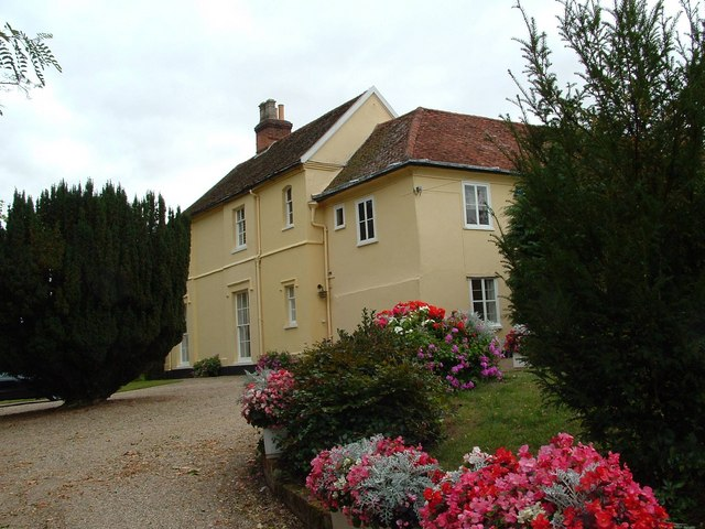 Castle House, Sir Alfred Munnings Museum Sir Alfred Munnings lived and painted here- the house is now a museum crammed full of his paintings.